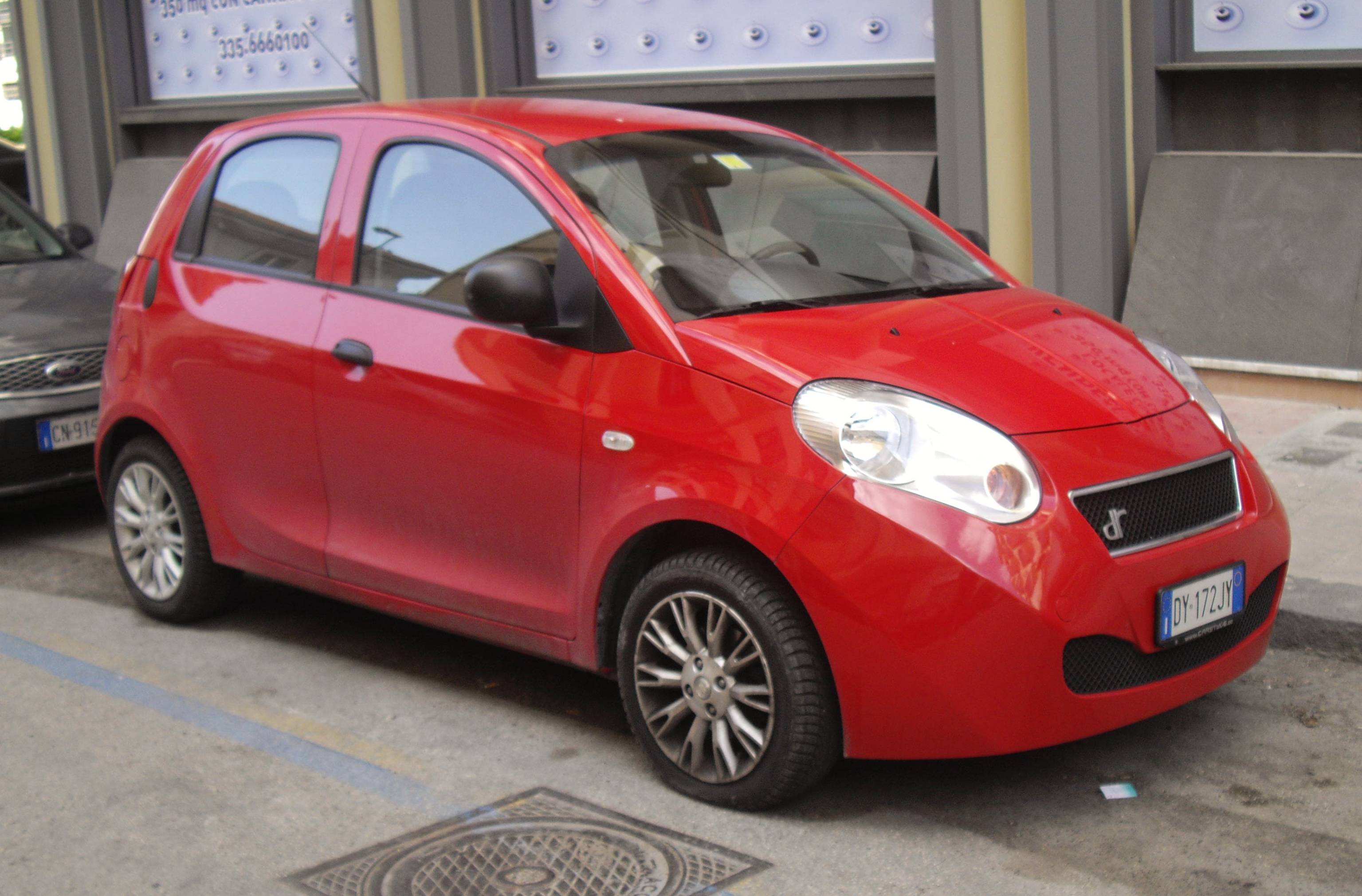 DR1 in Avellino front